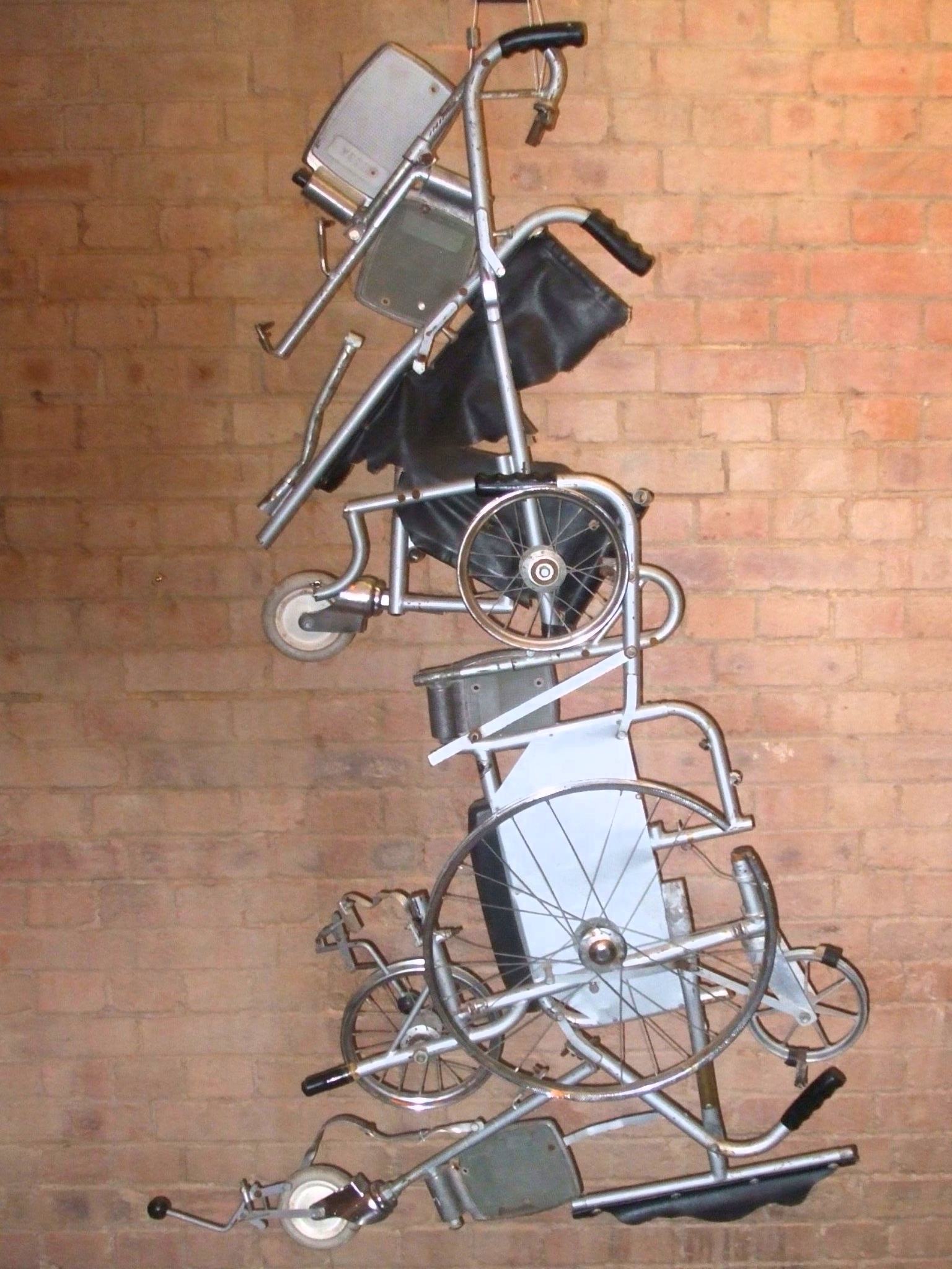 A major piece by Tony Heaton in 1994 ‘Great Britain from a Wheelchair’. This a map of Britain made from two grey NHS wheelchairs. ‘A delightful game, it forms a repudiation of the (“This is for some tragic bastard”,) conventional value judgement implicit in the wheelchairs. In November 2016 it was displayed at the Graeae Theatre in Hoxton.